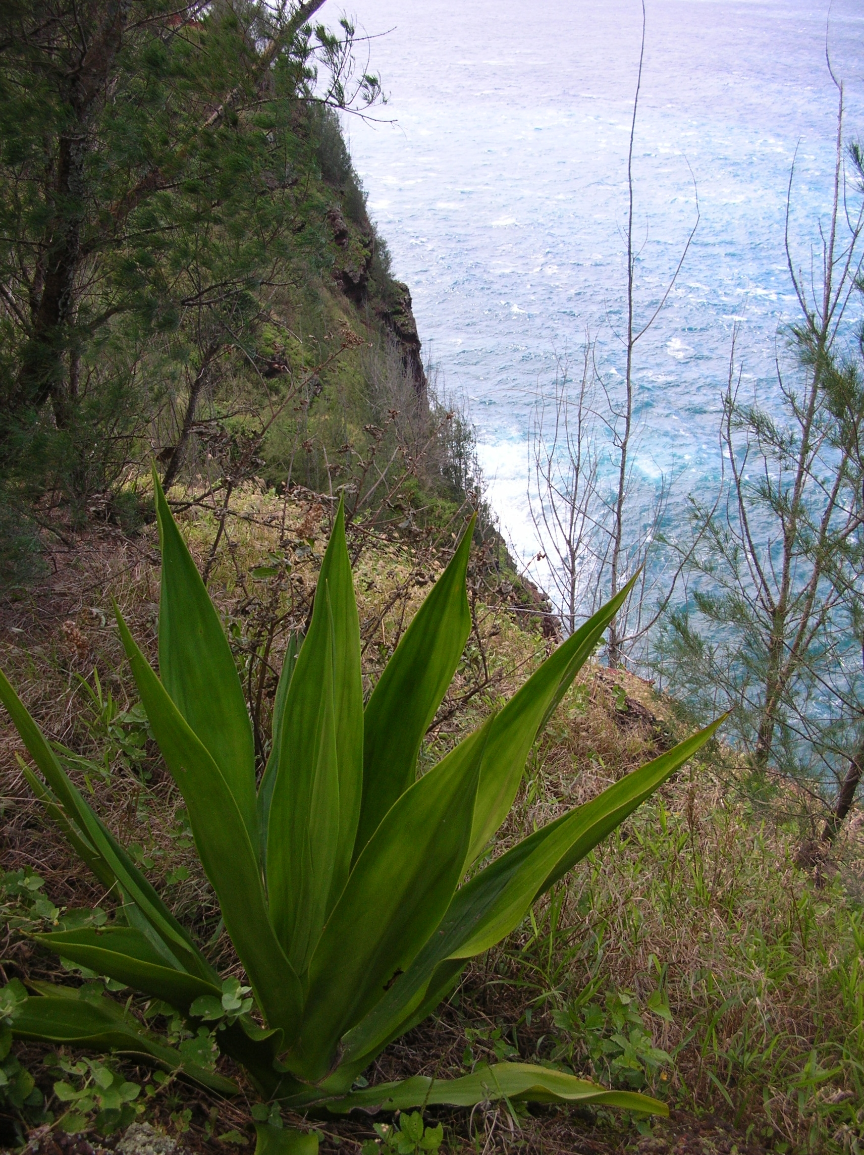 Furcraea foetida (habit). Location: Maui, Kanounou Pt